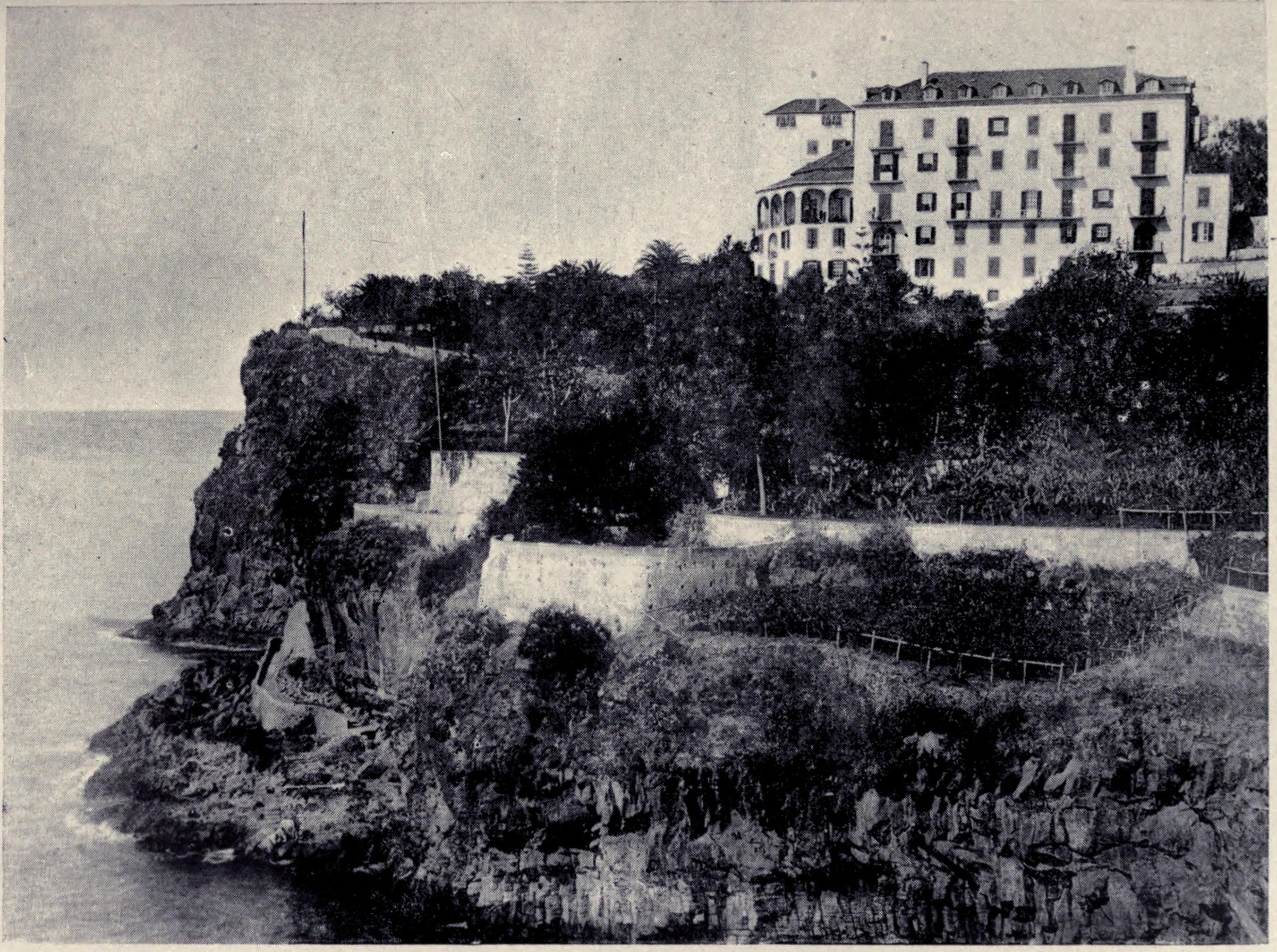 "The New Palace Hotel" in Madeira: Old and New